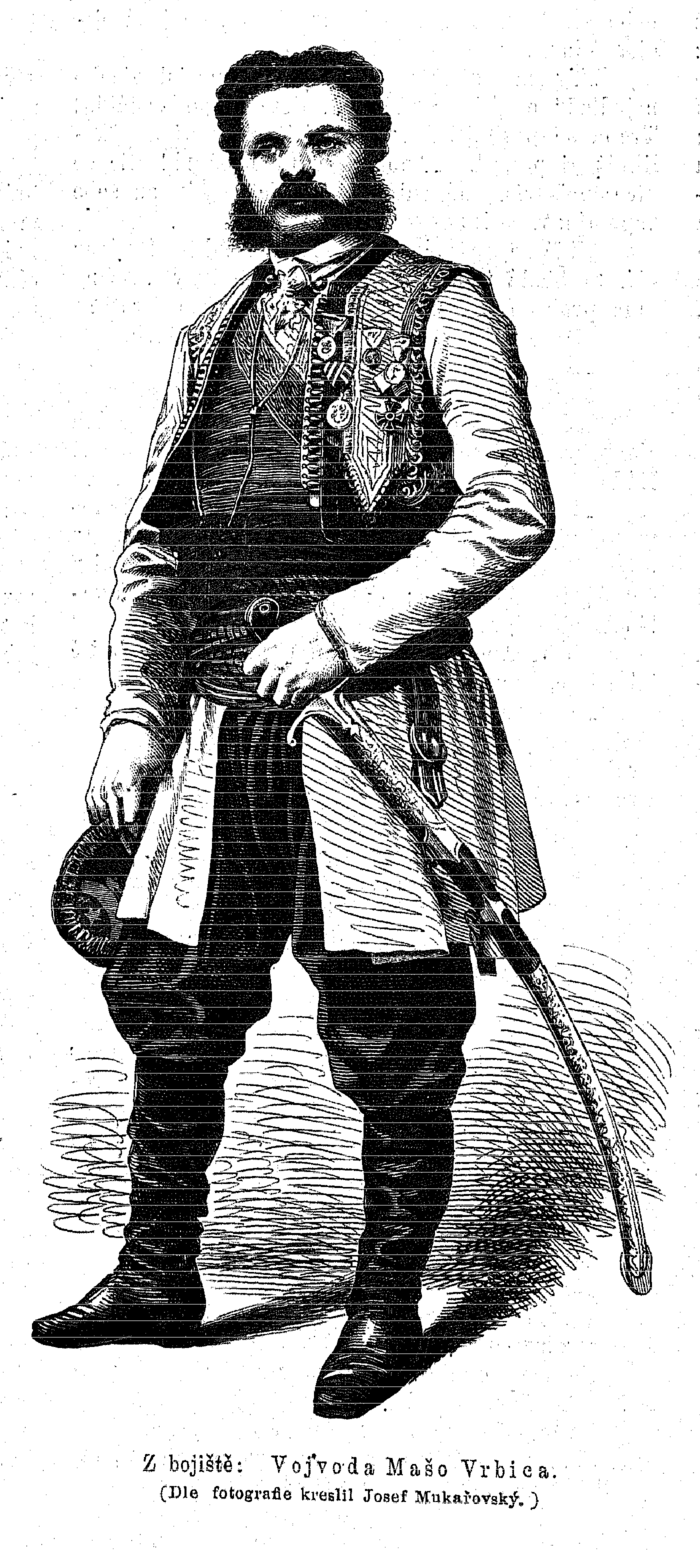 Portrait of Mašo Vrbica (1833 - 1898), duke (vojevoda) of Montenegro.